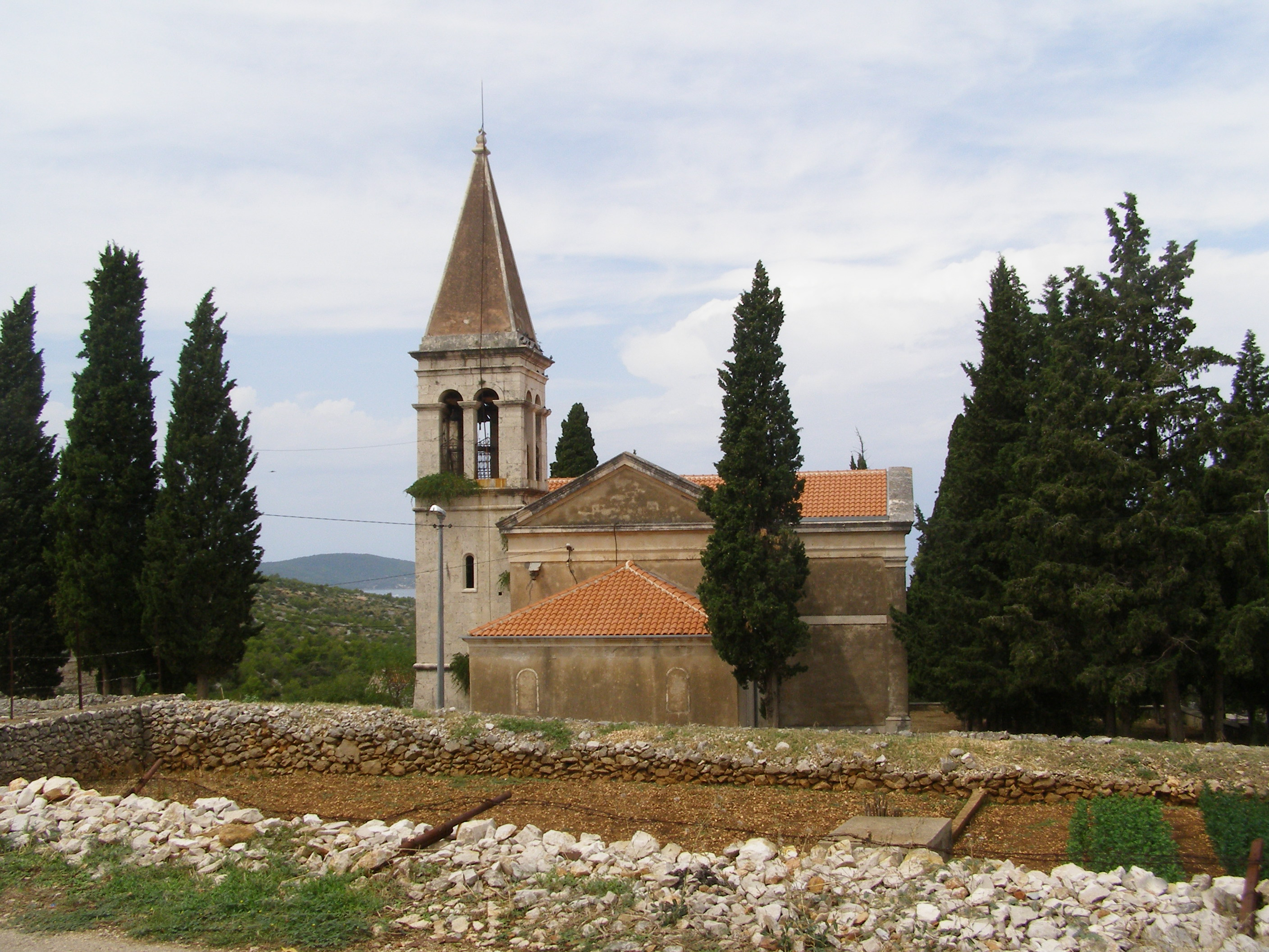 Catholic Church, Bobovišća, Brac, Croatia